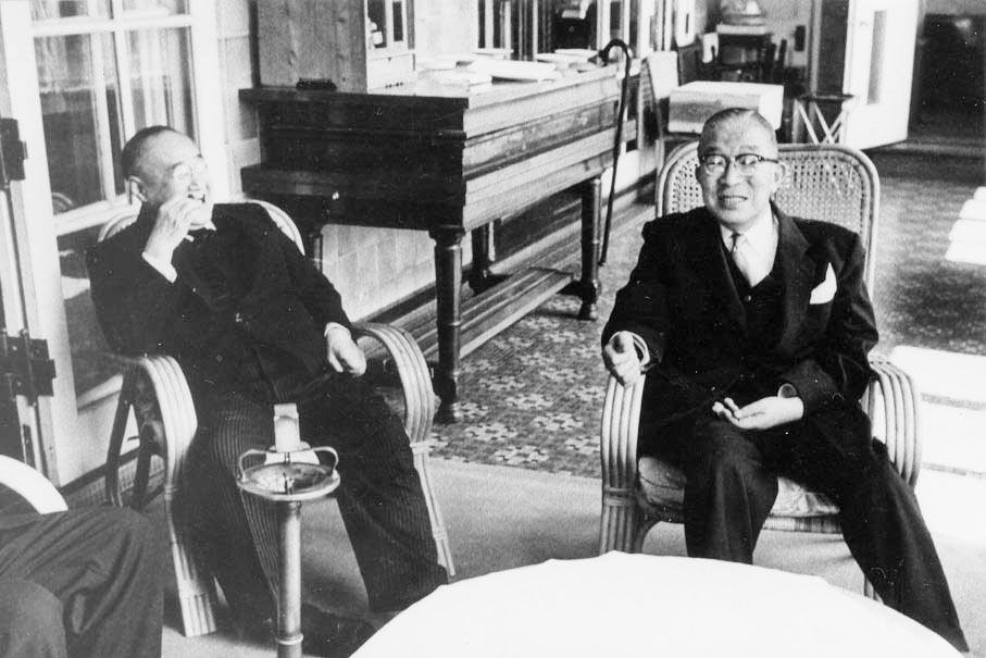 Japanese Prime Minister Shigeru Yoshida (1878–1967, in office 1946–57 and 48–54) meets the future Prime Minister Ichirō Hatoyama (1883–1959, in office 1954–56) after his recovery from stroke.